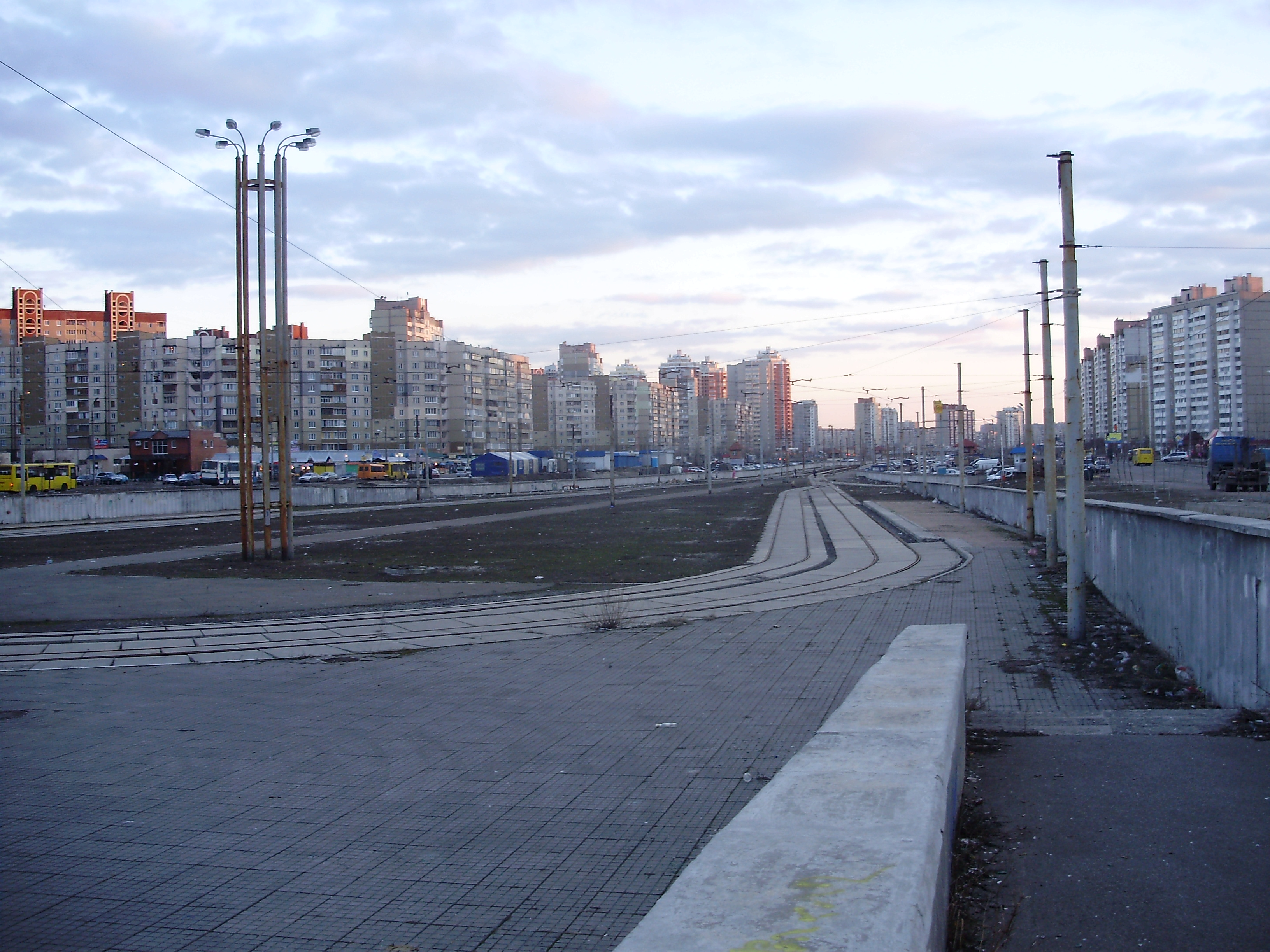 Kiev speed tram station «Myloslavska street».